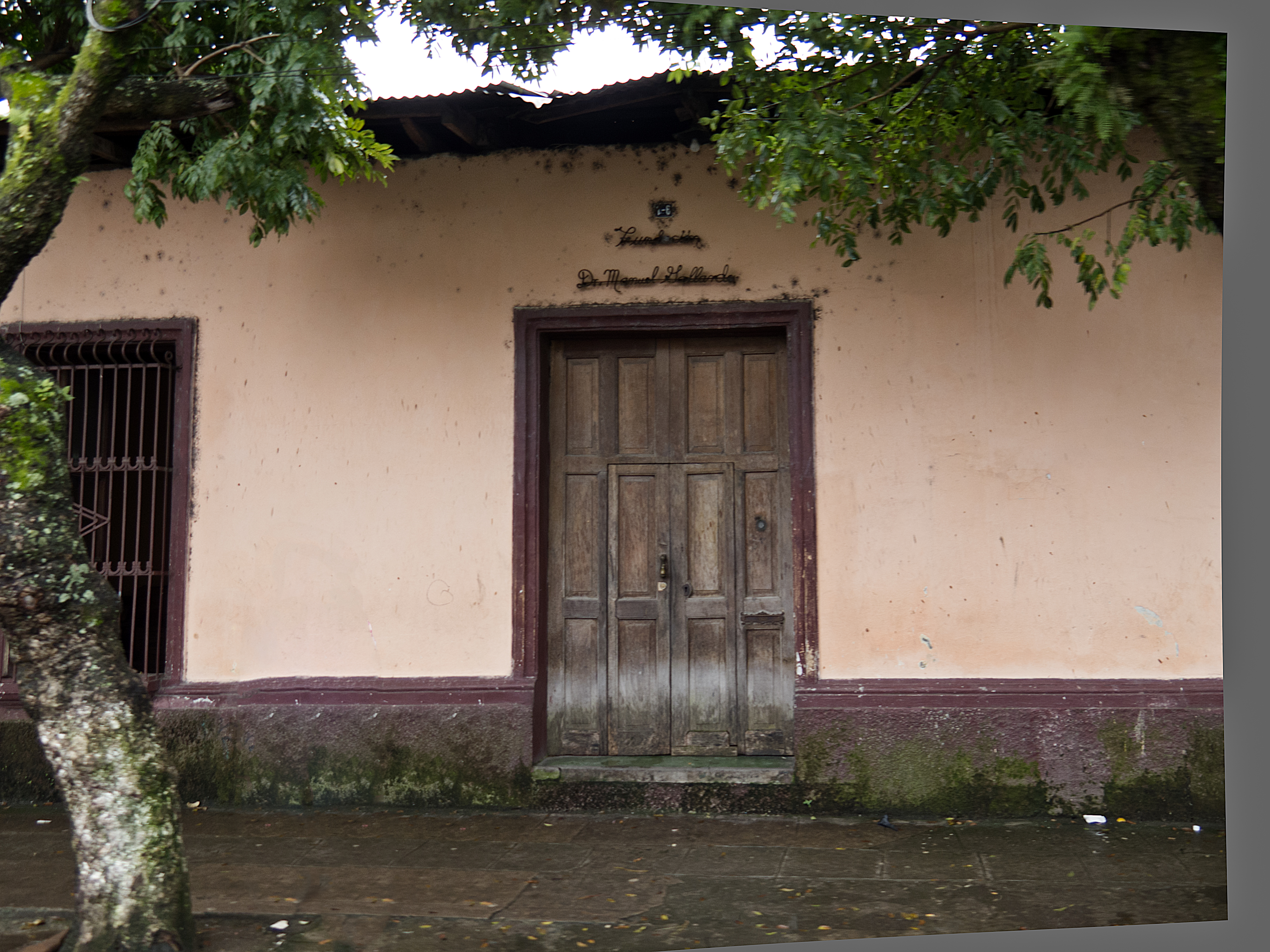 Photo of the Biblioteca Manuel Gallardo in Santa Tecla, El Salvador